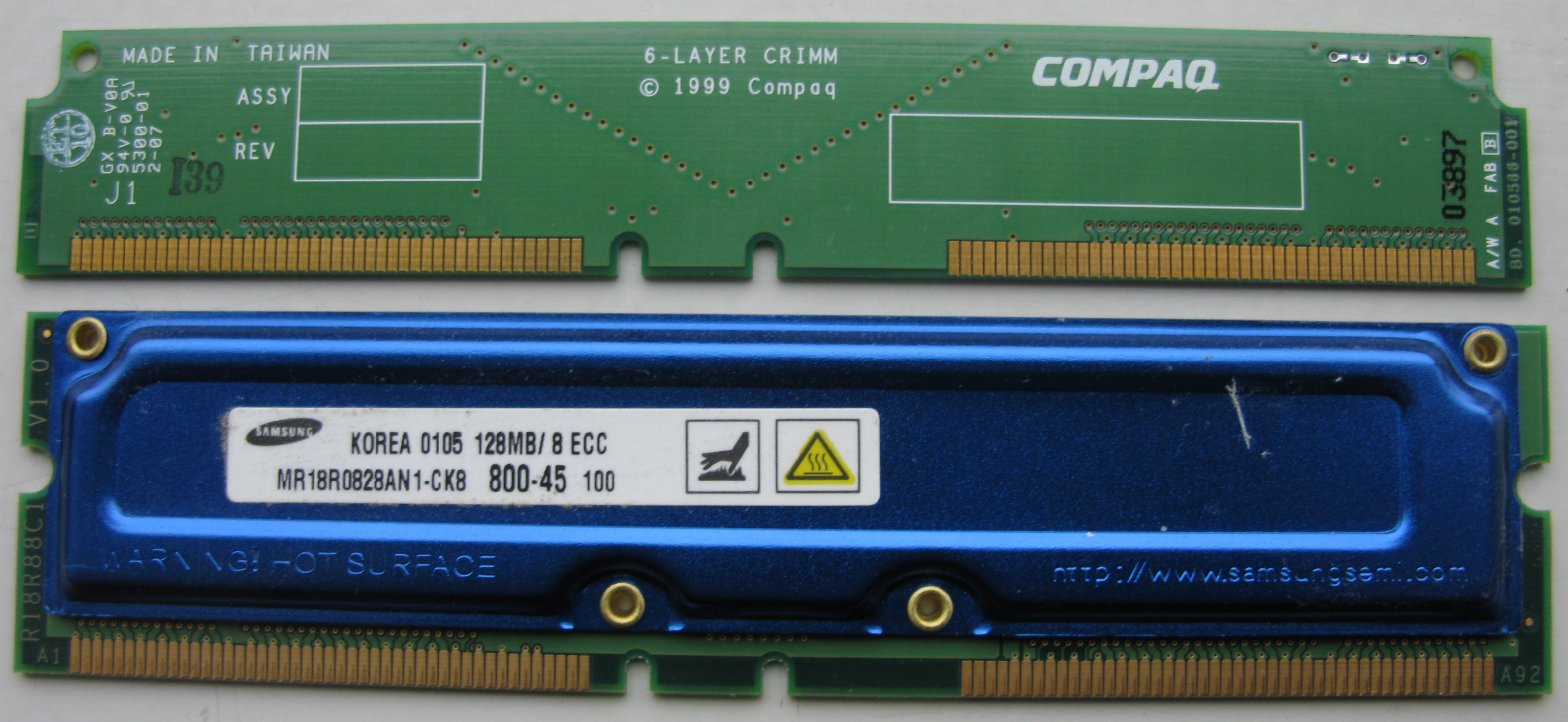 A RDRAM memory module and its accompanying CRIMM terminator (Rambus Speicher-Architektur)